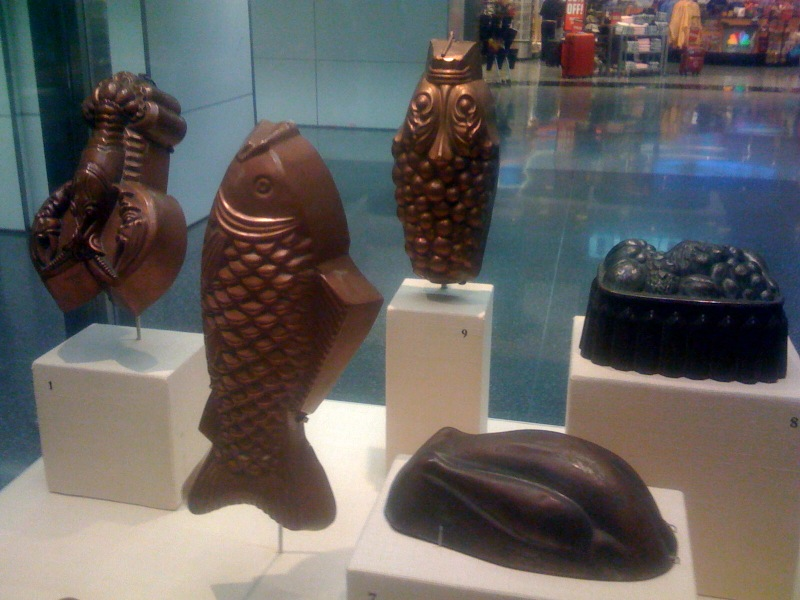 Antique food molds from a rotating exhibit at the San Francisco Airport